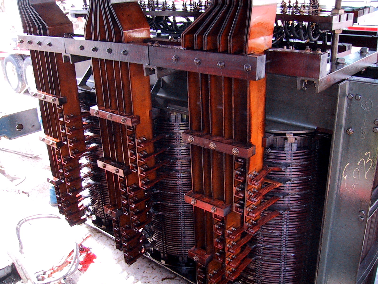 Bus work, core and coils of an arc furnace transformer, rated 8 megavoltamperes. This transformer had been in service for approximately 40 years. Visible is part of the heavy copper low voltage bus, the laminated core, and the low voltage windings; part of the tap connection board for the high voltage winding is visible at the top. This transformer was removed from its insulating oil for emergency service. Picture taken April 14, 2006 in Winnipeg, Manitoba.